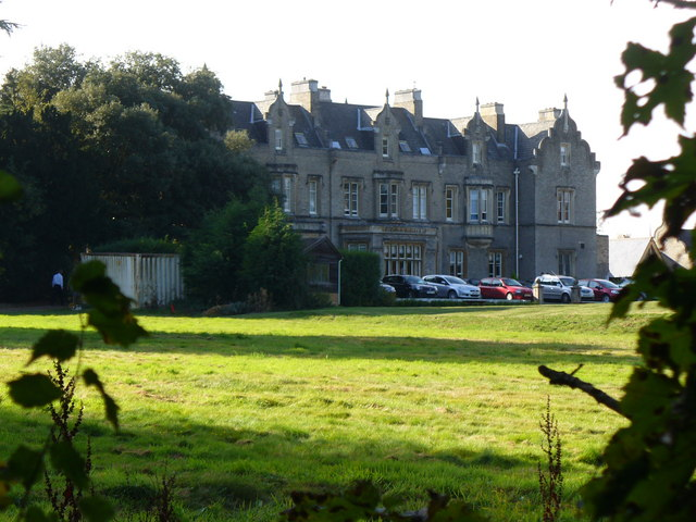 Shendish Manor, near to Rucklers Lane, Hertfordshire, Great Britain. Old country house set in extensive grounds south-west of Apsley. It is now a conference & leisure centre and has an adjacent golf course. Link